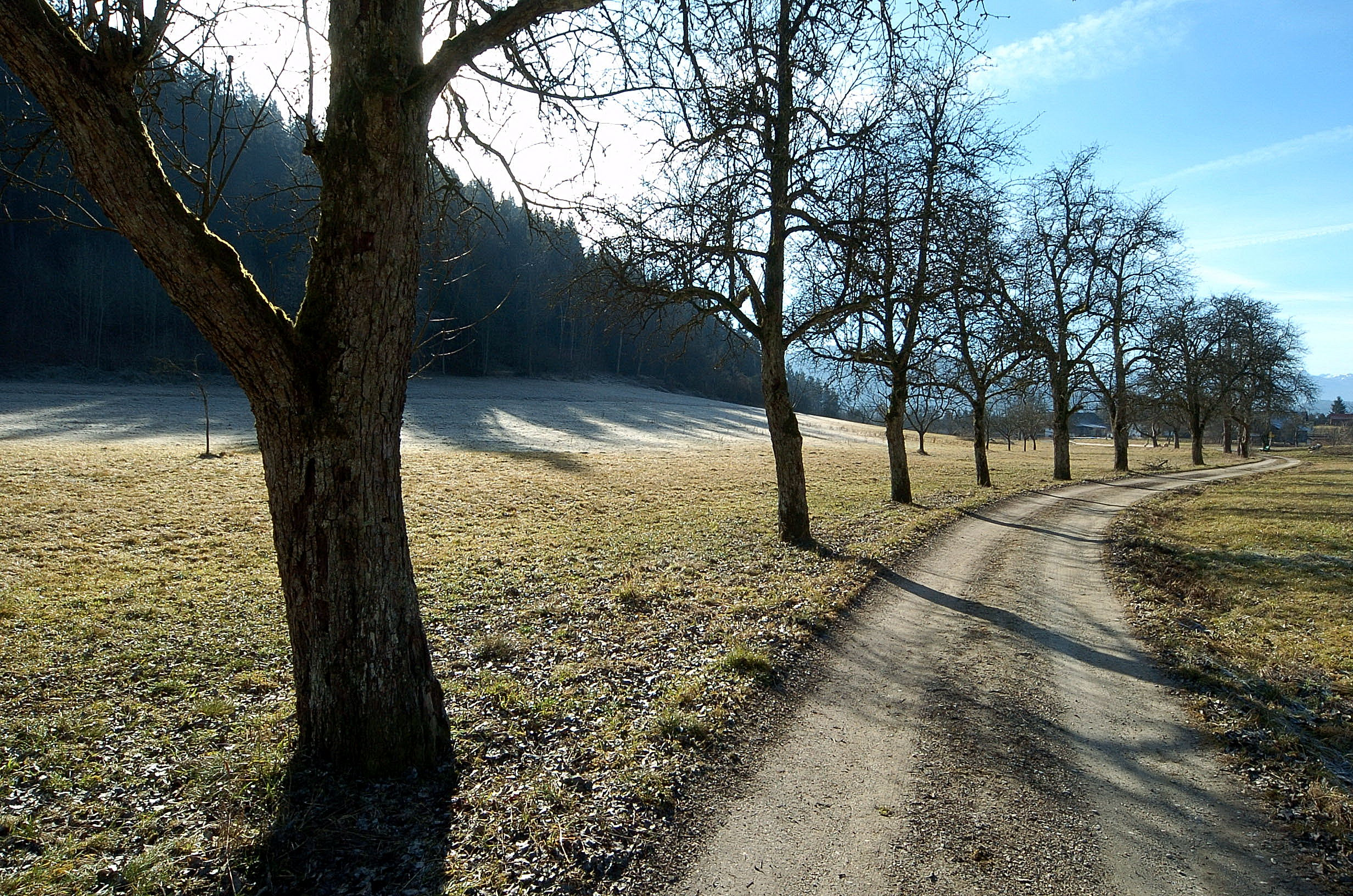 Hibernal orchard with pear tree avenue (road to the Lower Gaisrücken) in Winklern, municipality Pörtschach am Wörther See, district Klagenfurt Land, Carinthia, Austria, EU